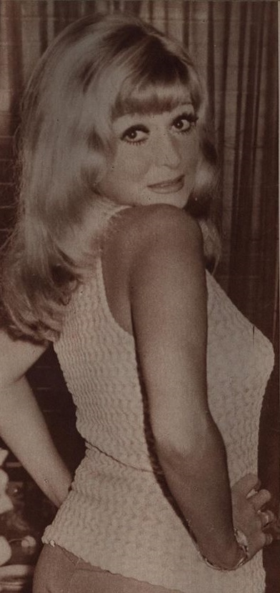 Susana Brunetti- vedette argentina